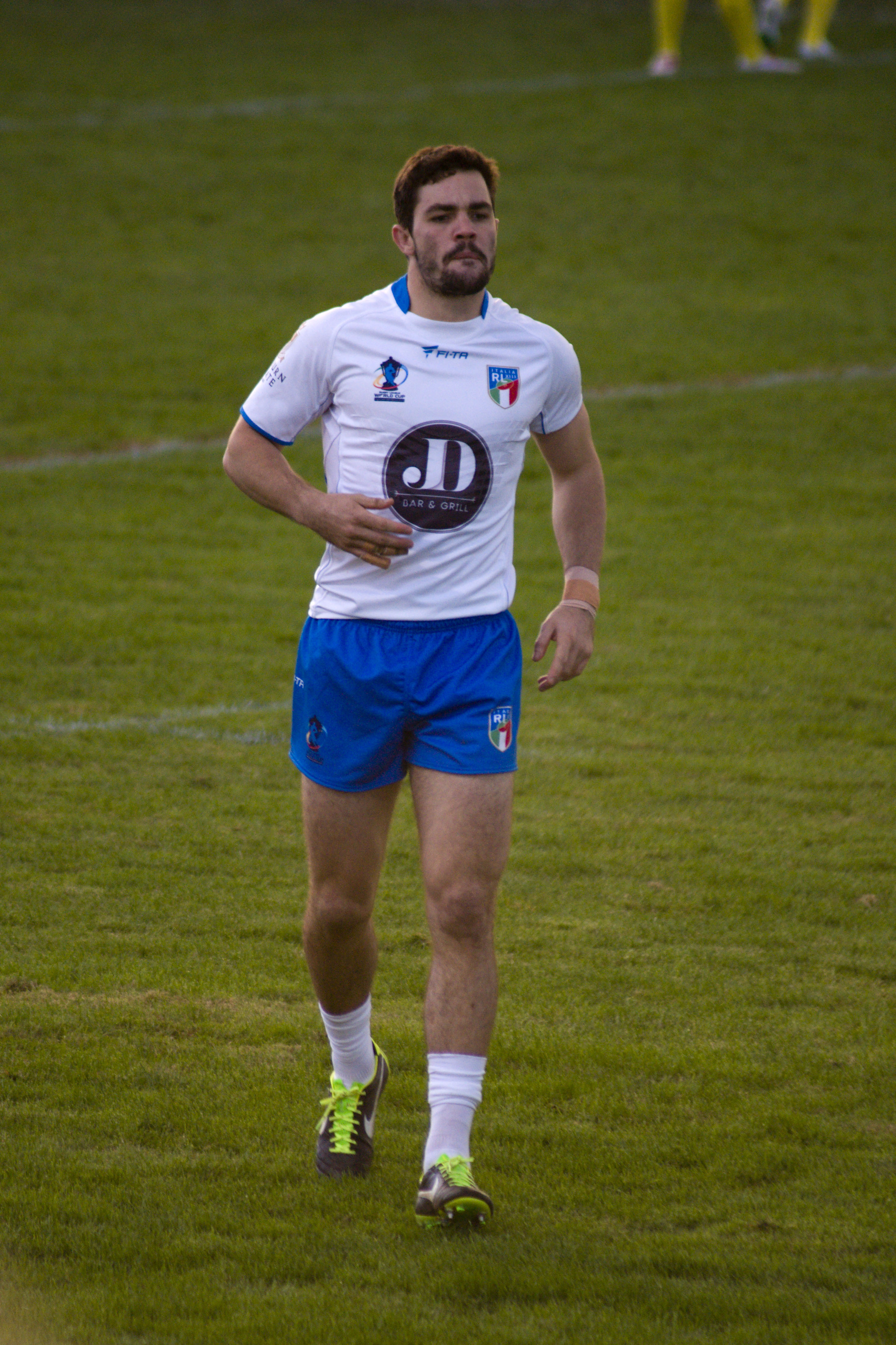 Aidan Guerra during 2013 Rugby League World Cup match between Scotland and Italy at Derwent Park in Workington.